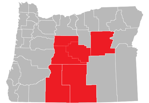 Map of Oregon House of Representatives District 21 during the period 1905-1921. The district included Crook, Deschutes, Grant, Jefferson, Klamath, and Lake counties. During the early years of this period, Deschutes and Jefferson counties were part of Crook County I created this image using an existing map format from Wiki-Commons. This map is based on image file previously posted on Wiki-Commons